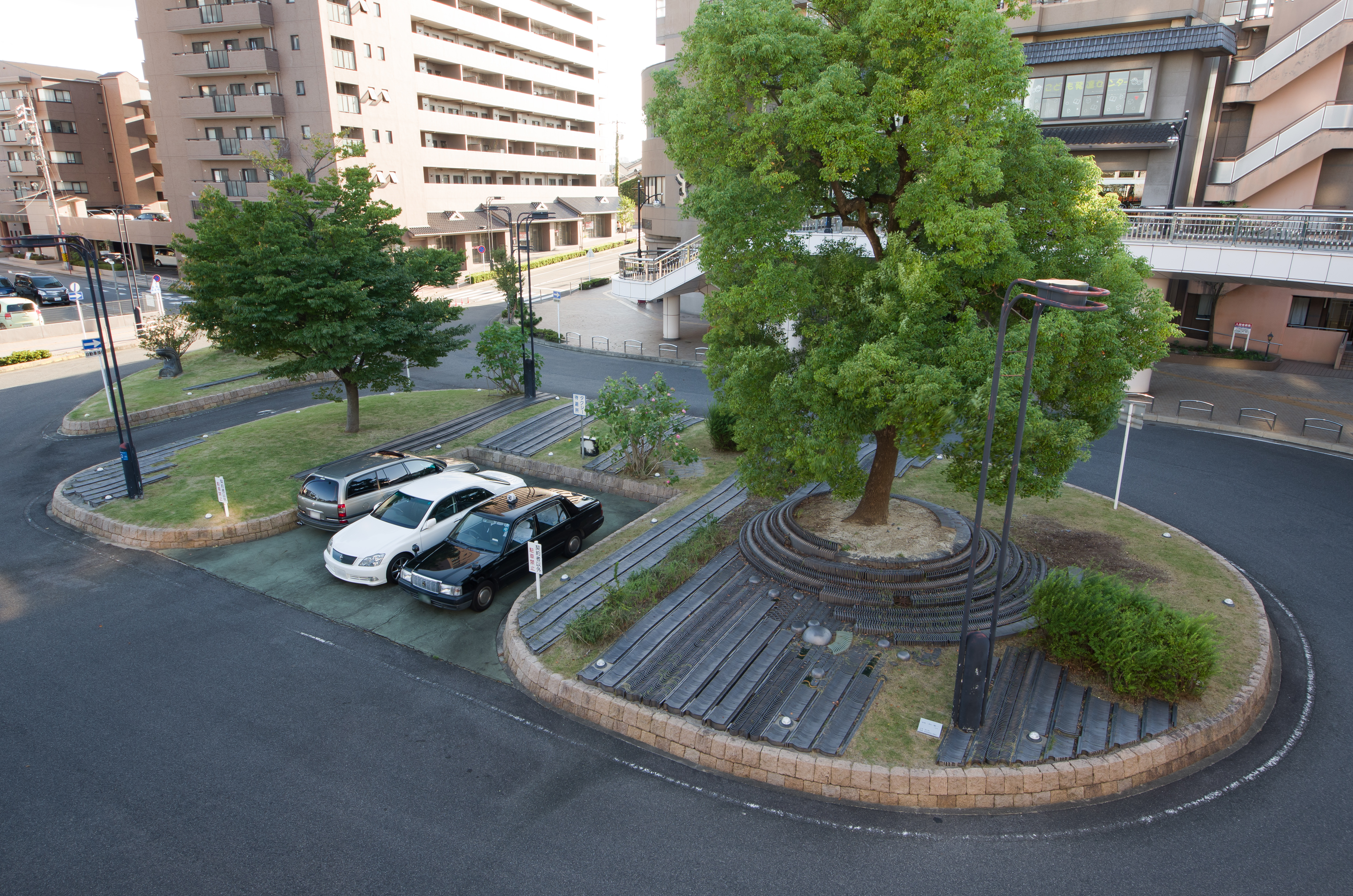 The monument made of Sanshu-gawara displayed at the west side of Mikawa Takahama Station.